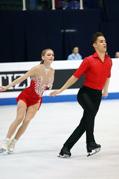 Kate Finster and Balazs Nagy - 2019 Junior Worlds